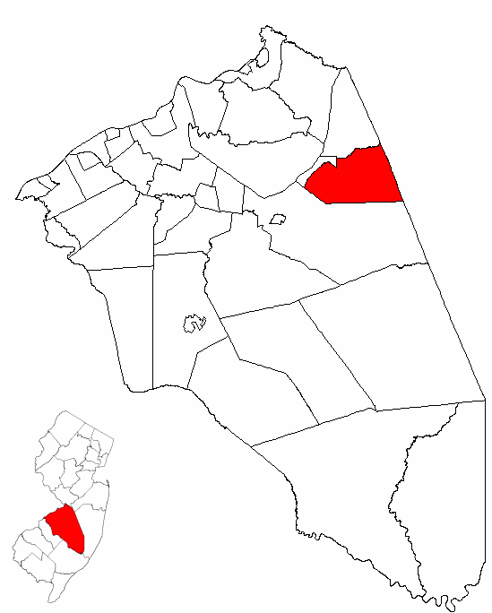 taken from State of New Jersey website - adapted by H. Cheney - licensed under GFDL and cc-by-sa